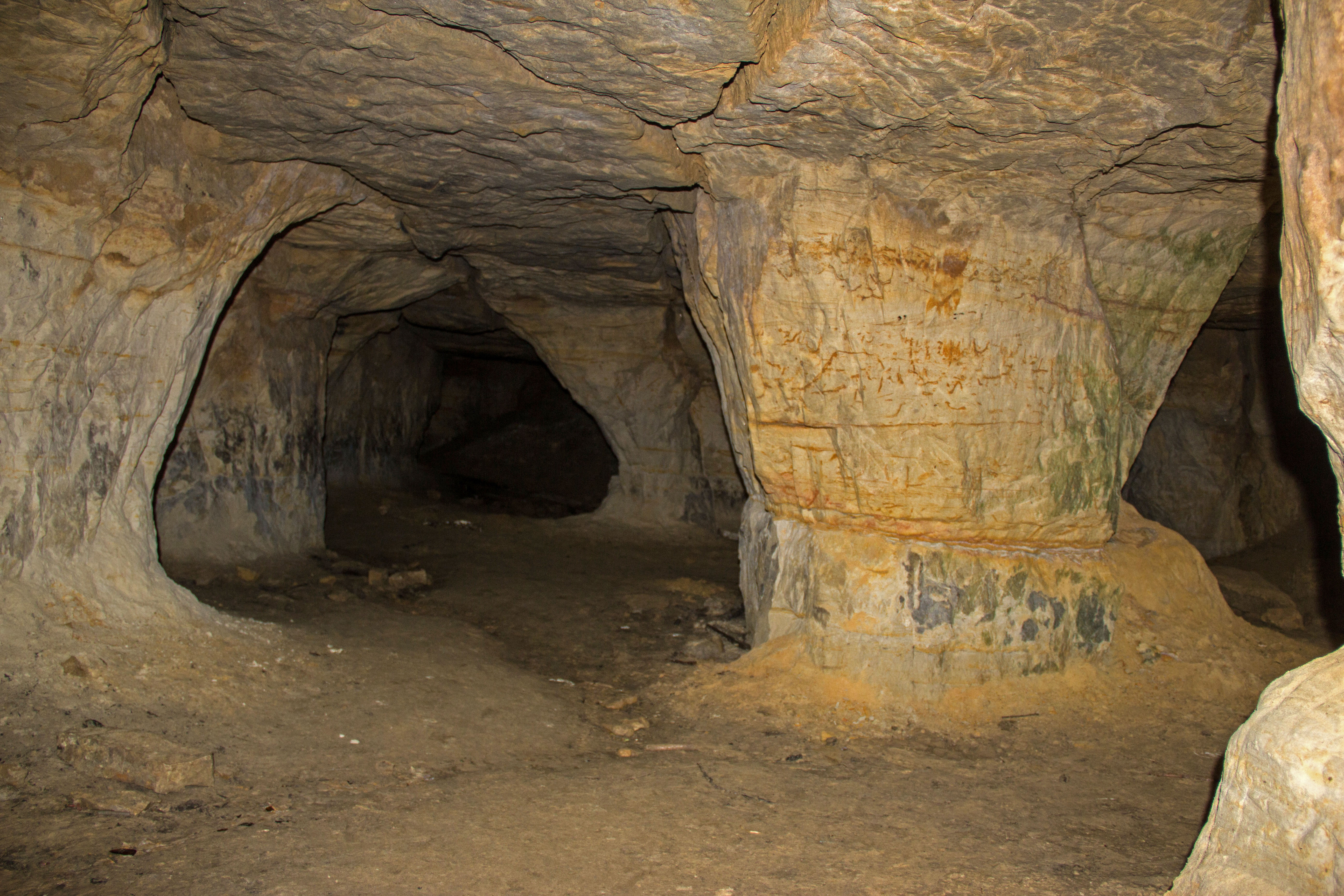 Bucher Höhlen